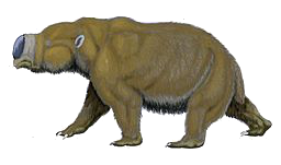 Diprotodon